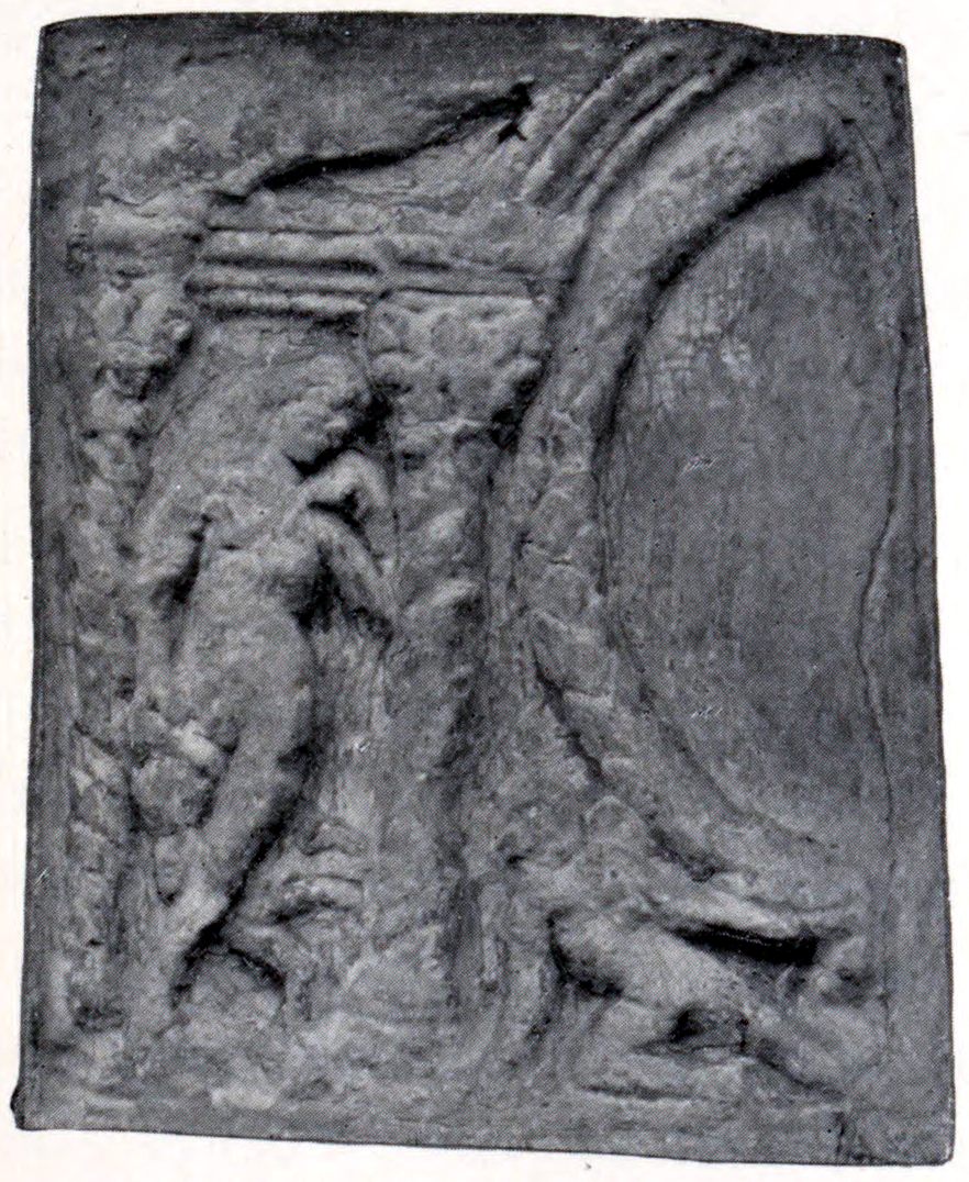 Fragment of Slab once inscribed, Castlecary